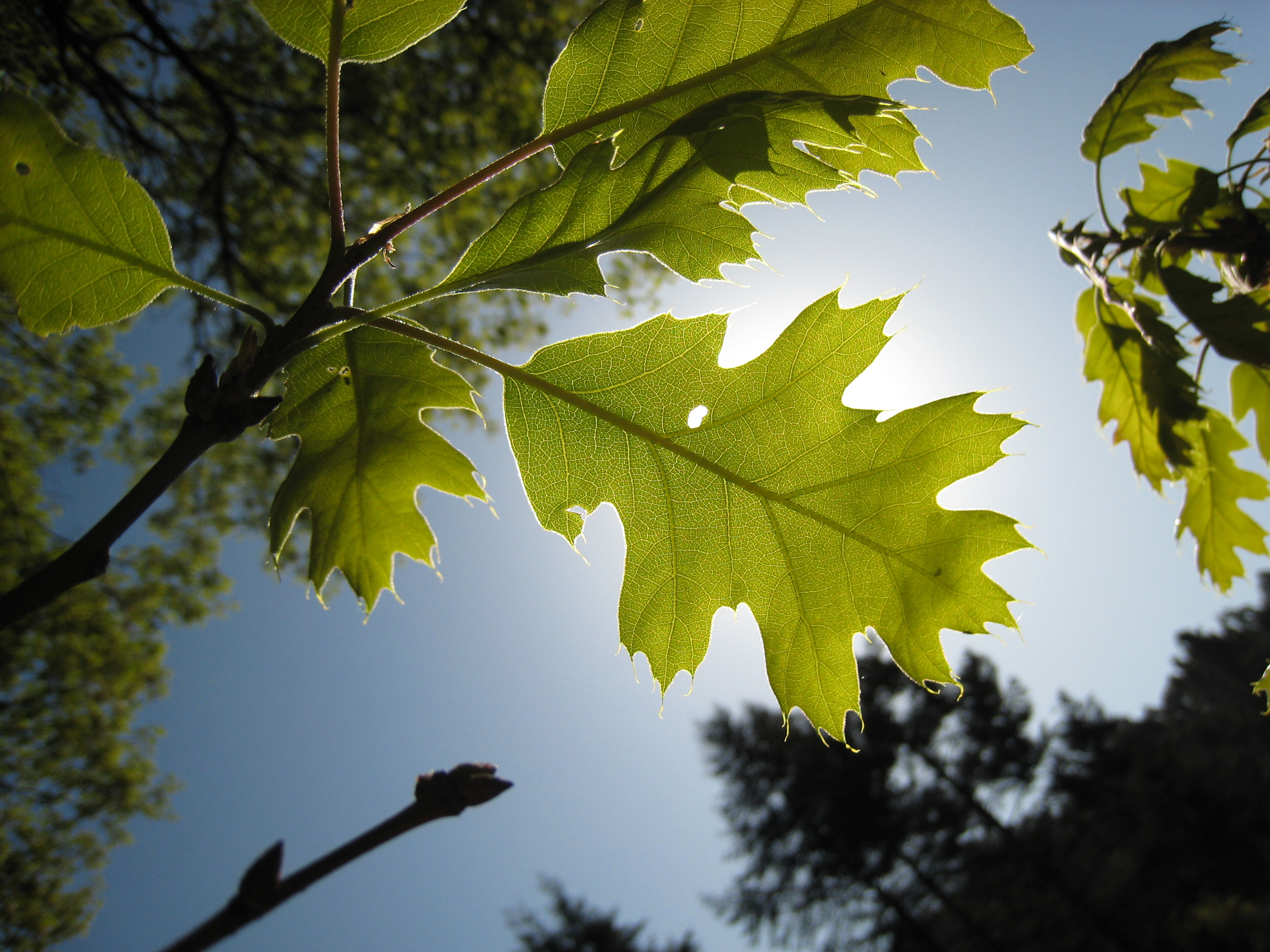 Quercus kelloggii (California Black Oak)